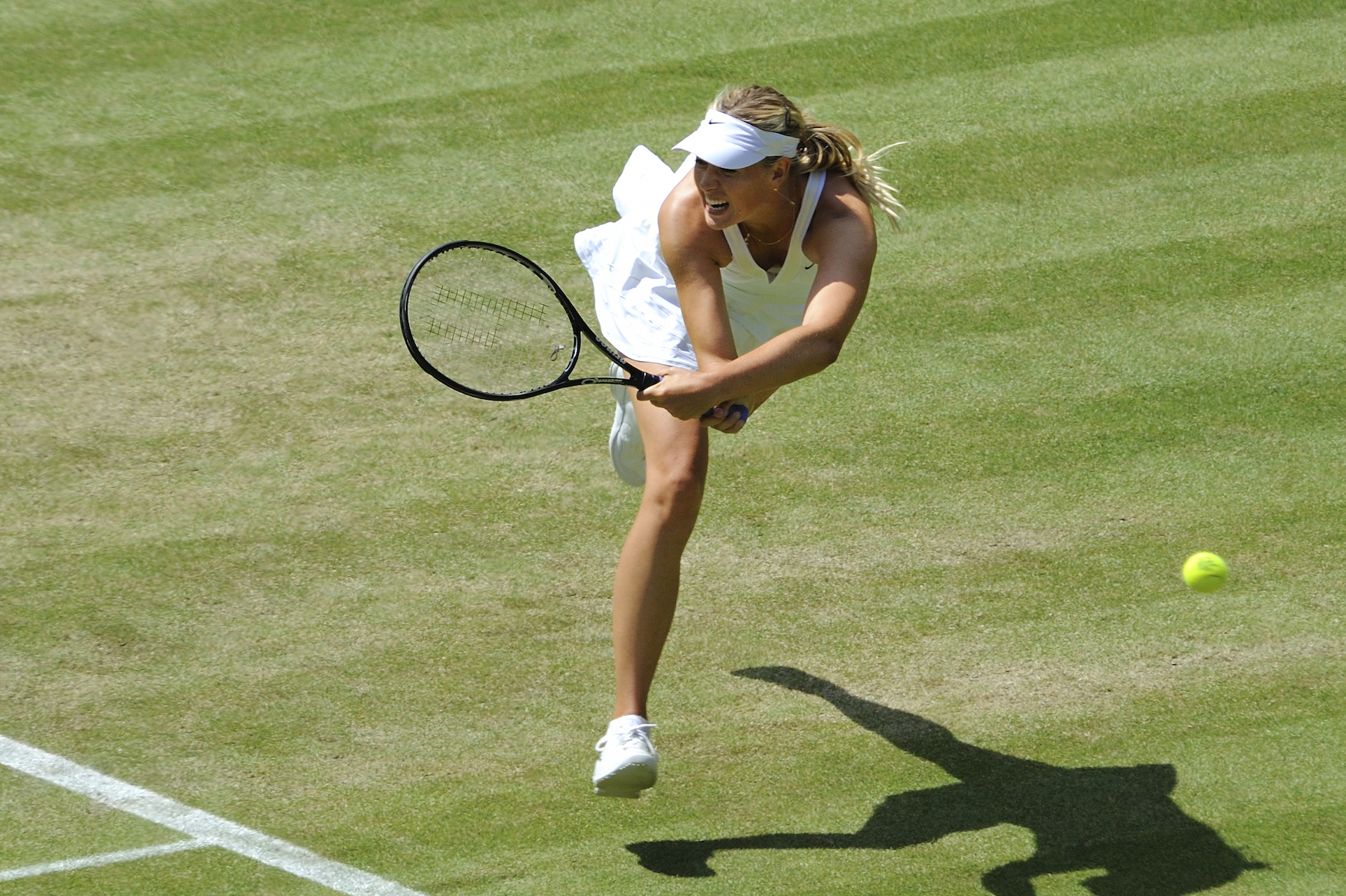 Maria Sharapova against Gisela Dulko in the 2009 Wimbledon Championships second round